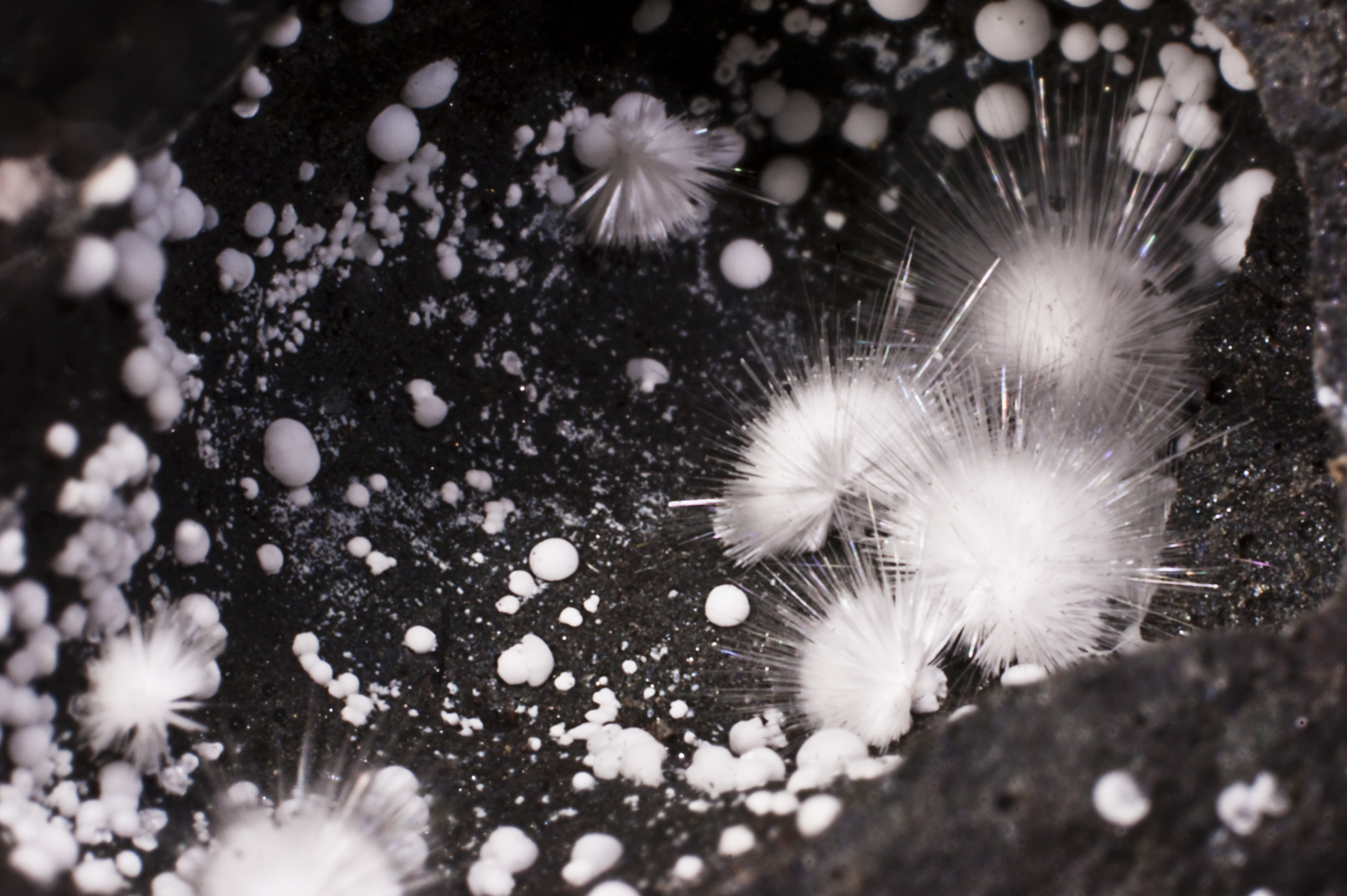 Sainfeldite and picropharmacolite Villanière (scories), Salsigne, Mas-Cabardès, Carcassonne, Aude, Languedoc-Roussillon France- View : 1.3cm (size of sainfieldite spherules 300-500µ)